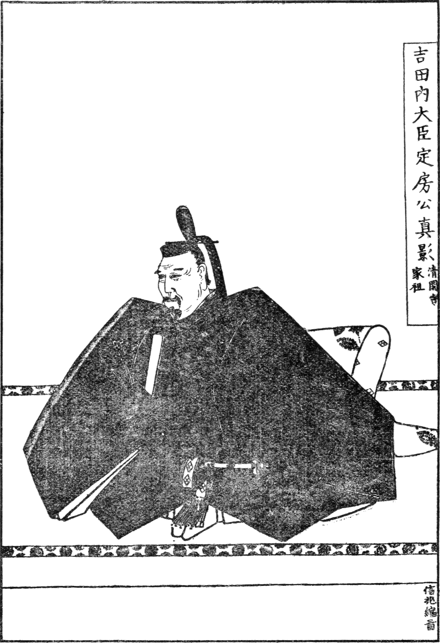 Portrait of Yoshida_Sadafusa